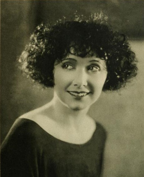 Publicity photo of Mae Busch from Stars of the Photoplay. Mae Busch is an Australian by birth, but was educated in New Jersey. Her original ambition was to become a singer. She began her career in vaudeville. She made her first big hit on the screen in "The Devil's Pass-Key," a picture directed by Erich von Stroheim. She was given her greatest opportunity in pictures in Maurice Tourneur's production of "The Christian." Her parents were theatrical people, known as the Busch-DeVore Trio. She is about twenty-eight years old, is five feet, five inches tall, weighs 130 pounds, and has black hair and grey eyes.